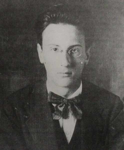 Photo of the Croatian politician and communist, Nikola Hećimović (1900-1929).